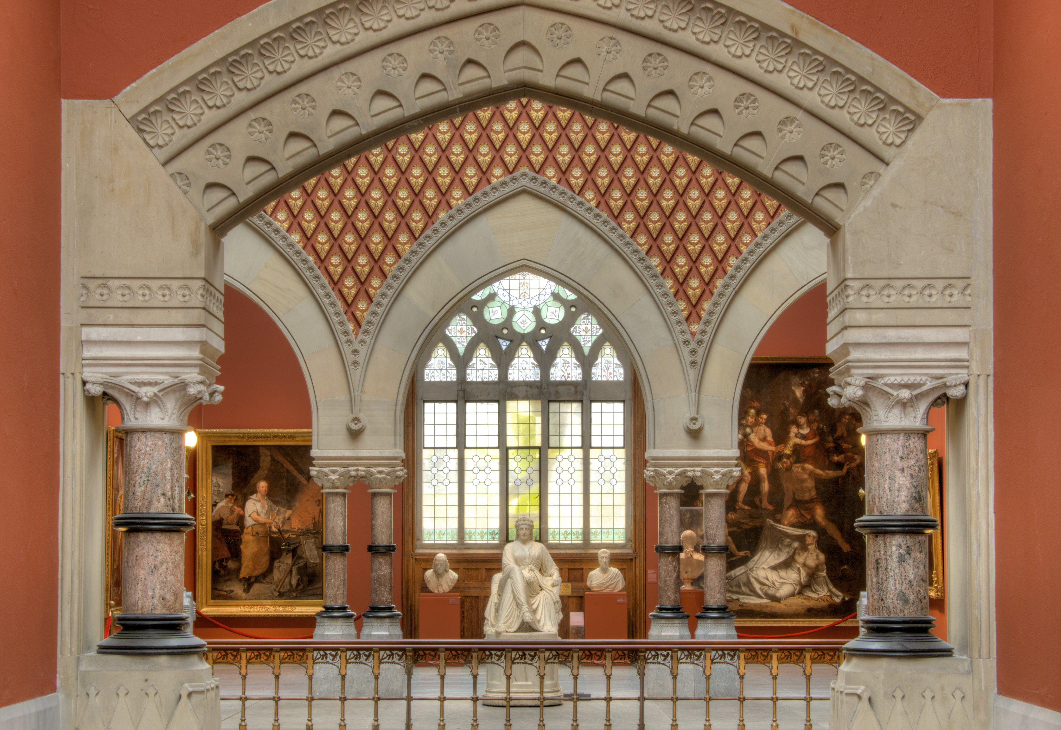 A view across the Atrium to the Washington Foyer.